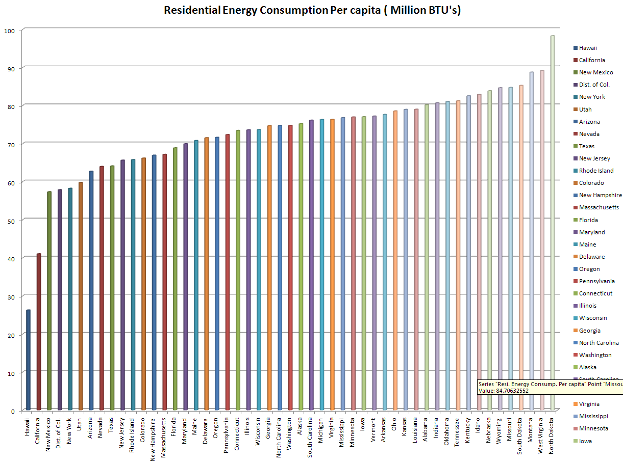 A chart showing Residential Energy Consumption per capita. All data sourced from US Energy Information Administration's SEDS State Energy Data System.